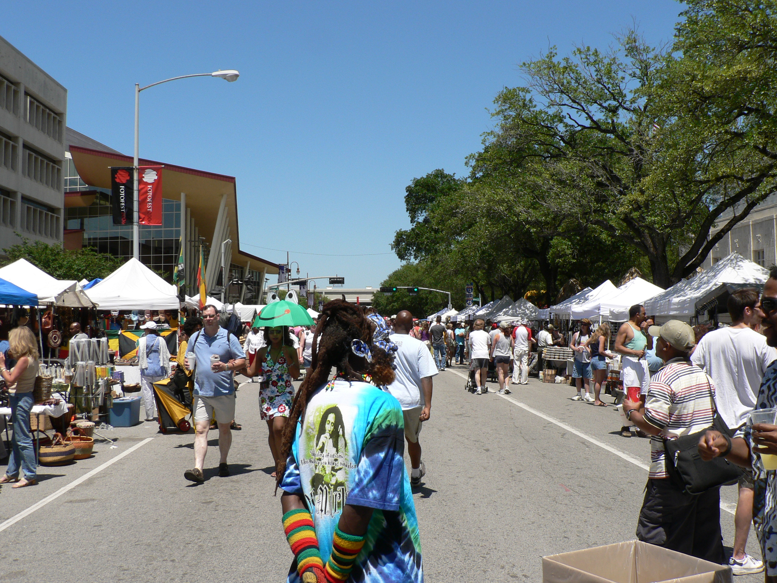 Houston International Festival "Blue Face Man"